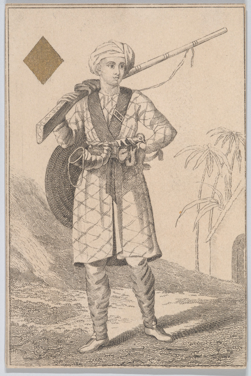 Print; Prints